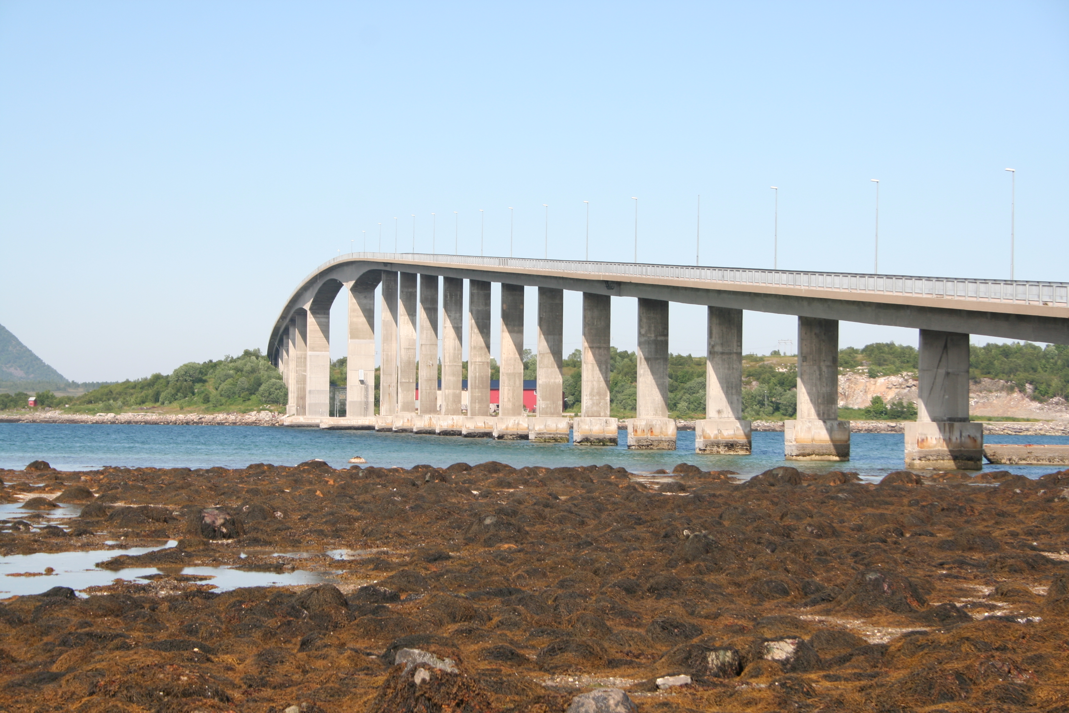 Andøy Bridge in Norway. This photo was taken by me